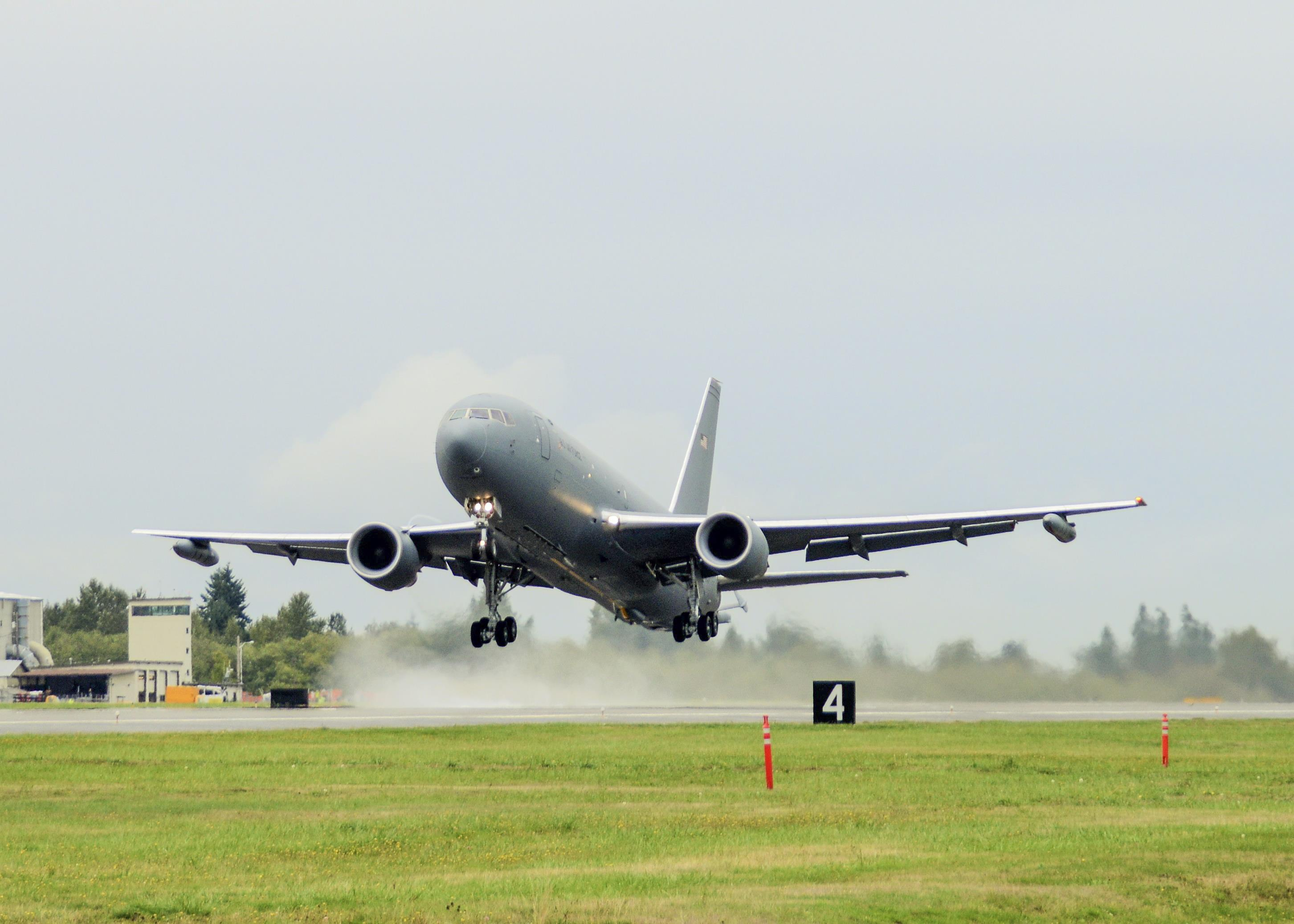 A KC-46 Pegasus took to the skies for its first flight at Paine Field in Everett